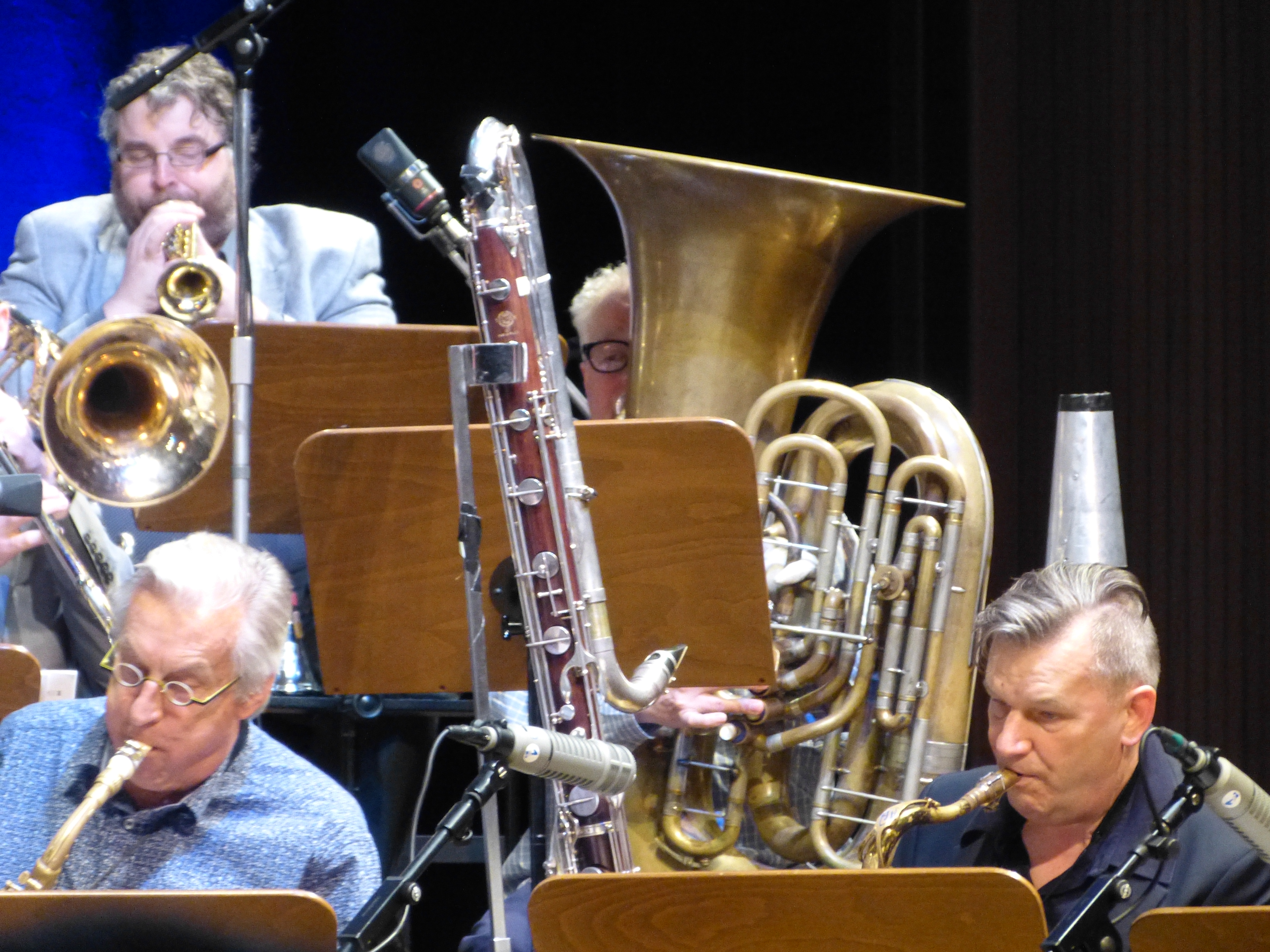 Cooperation of wind instrumentalists - within the concert of the David Kweksilber Big Band at WDR, Cologne, Germany, May 6th, 2017 - below: Leo van Oostrom, Peter van Bergen; above: Marc Kaptijn, Tjeerd Oostendorp